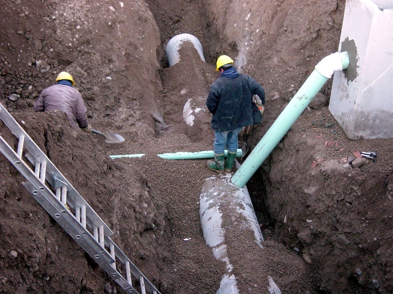 Typical catch basin connection to storm sewer in Ontario, Canada.